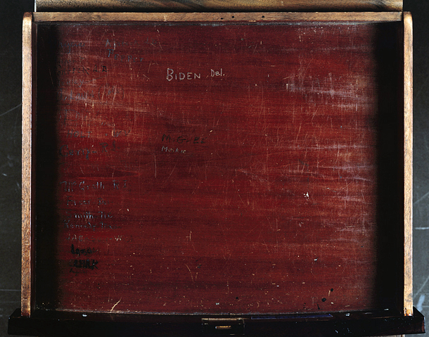 Inside drawer of Senate chamber desk XCI occupied by Sen. Joe Biden during his time in the U.S. Senate. Note signature at upper center inside of the drawer.